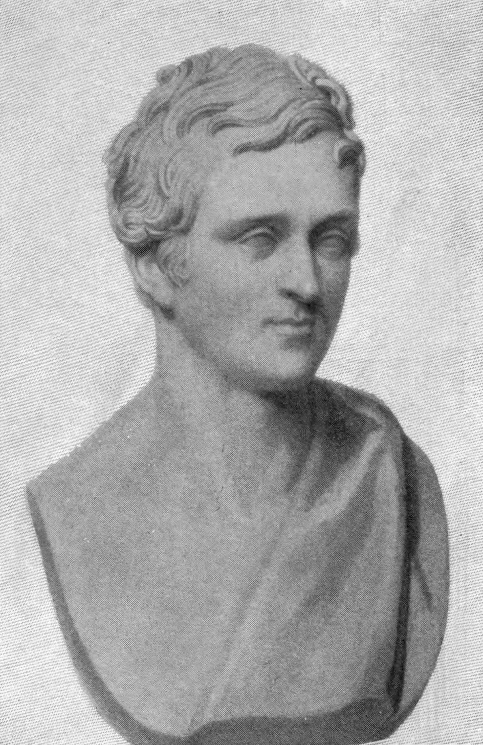 A drawing of a bust by Sir Francis Leggatt Chantrey of the English poet Arthur Henry Hallam (1 February 1811 – 15 September 1833), son of the historian Henry Hallam.